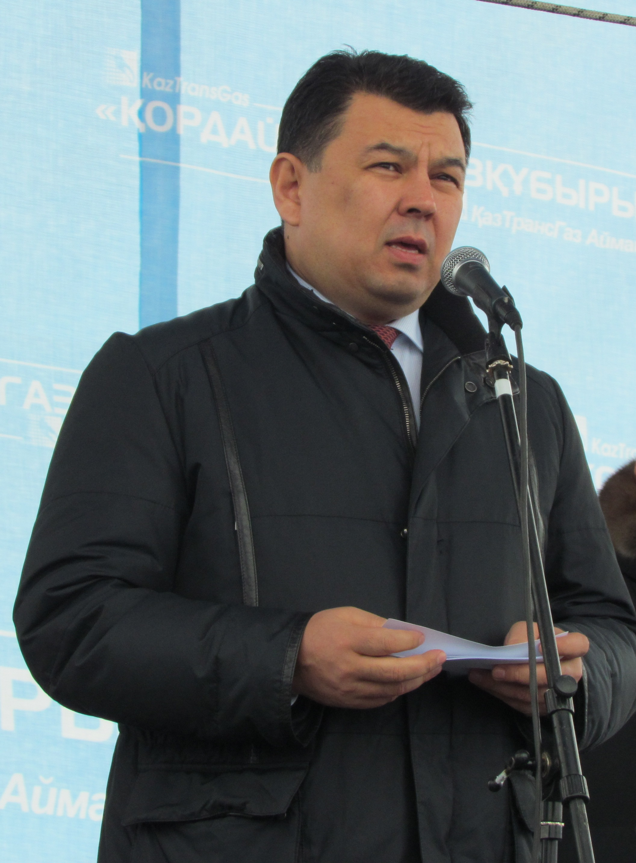 Kanat Bozymbayev